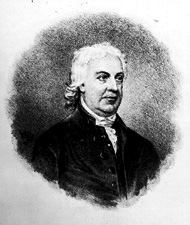 Samuel Livermore